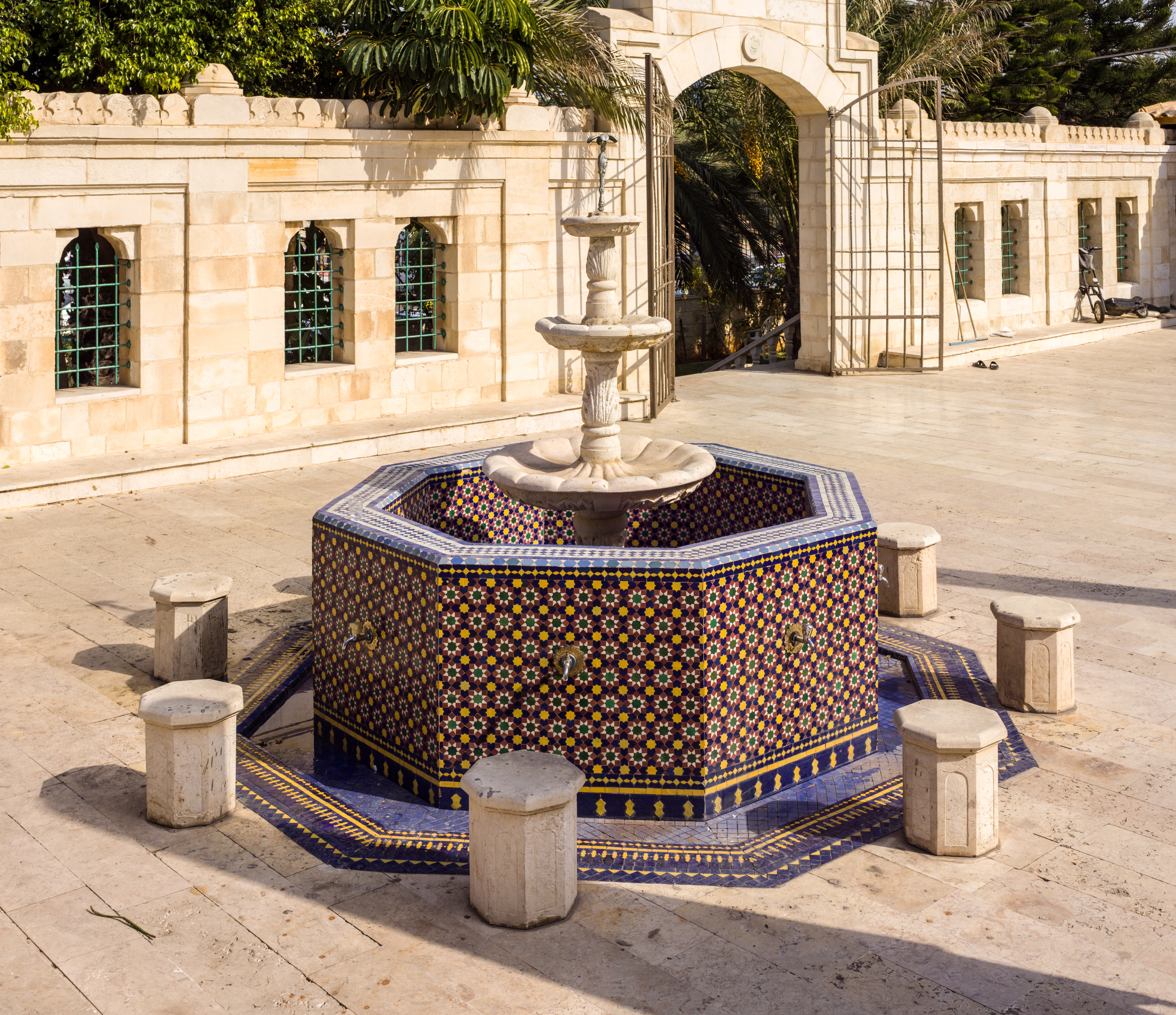 One of two ablution fountains in the courtyard of the Hassan Bek Mosque (Hebrew: מסגד חסן בק), (Arabic: مسجد حسن بك) in the Jaffa area of Tel Aviv-Yafo.